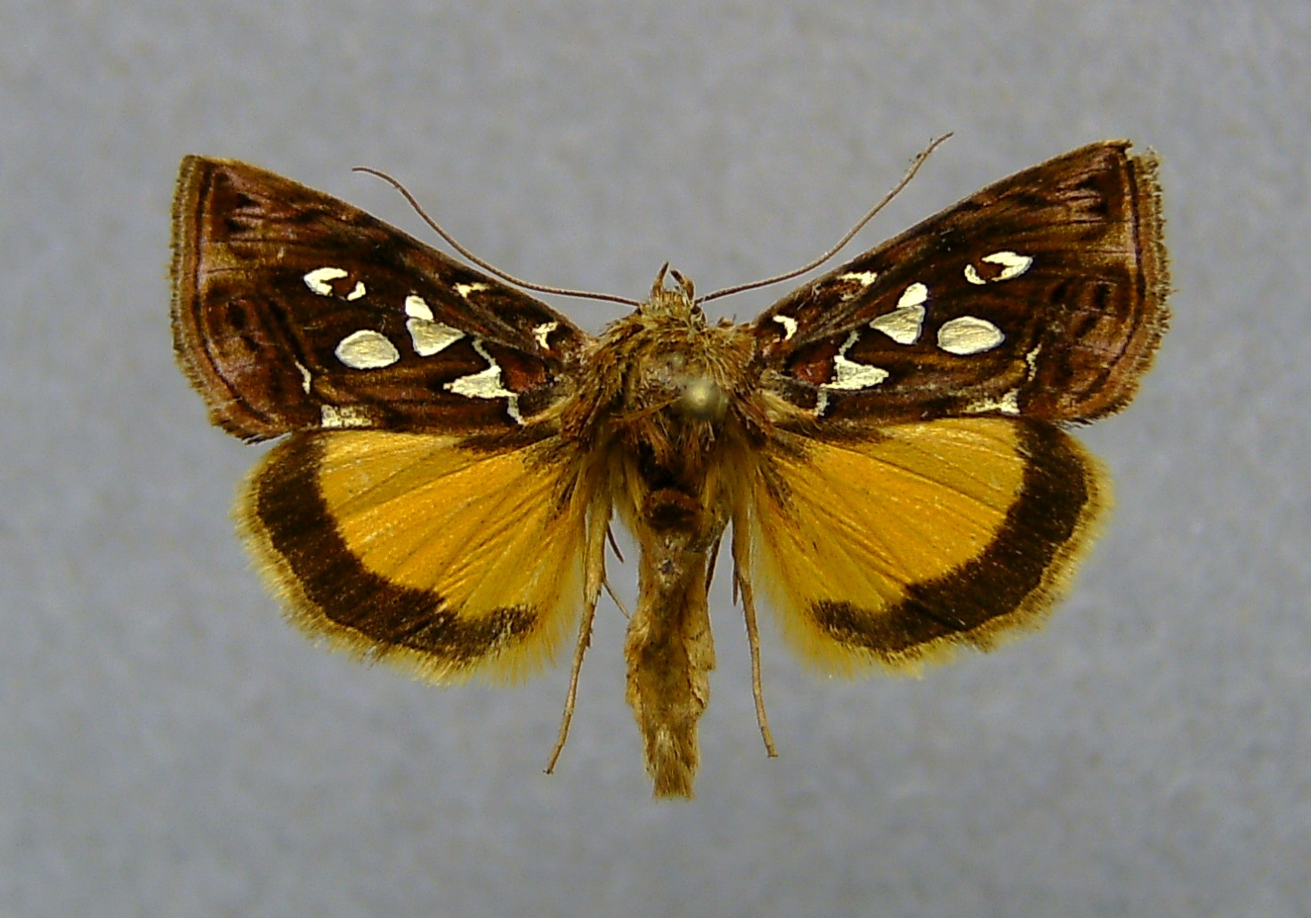 Panchrysia dives, Khabarovsk Krai, Russia